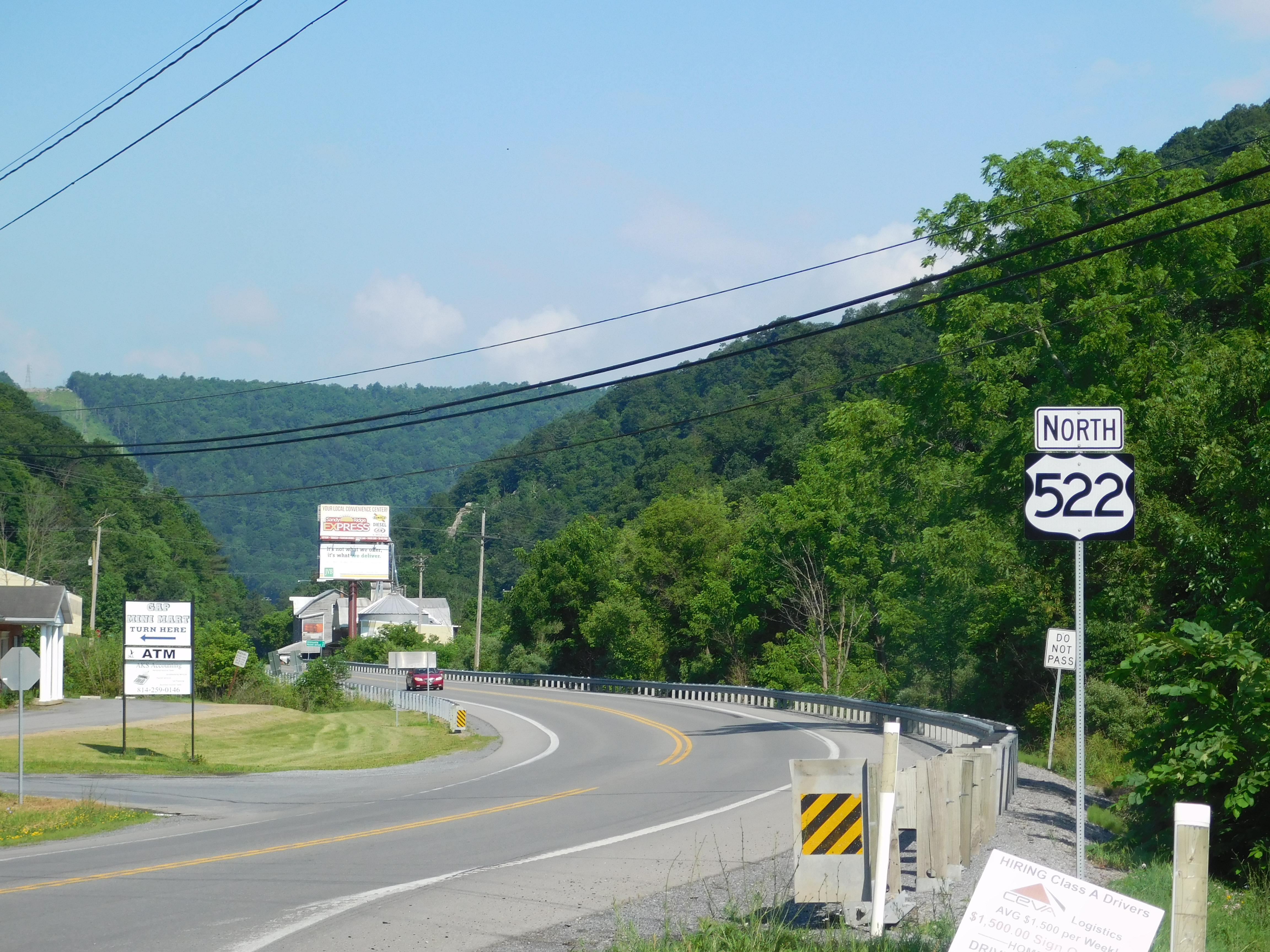 U.S. Route 522 in Dublin Township, Huntingdon County, Pennsylvania.